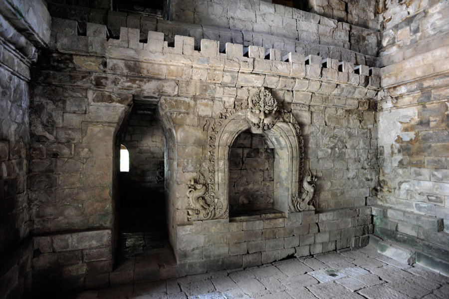 inside view Candi Sari, Java